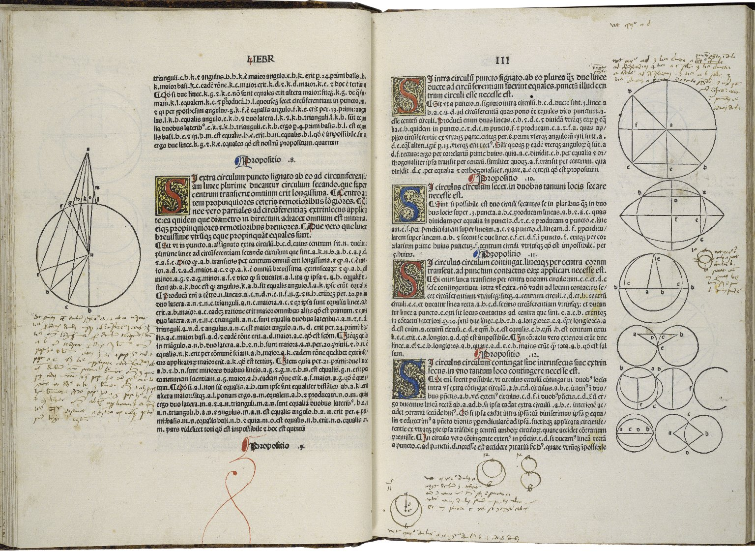 A page with marginalia from the first printed edition of Euclid's Elements, printed by Erhard Ratdolt in 1482